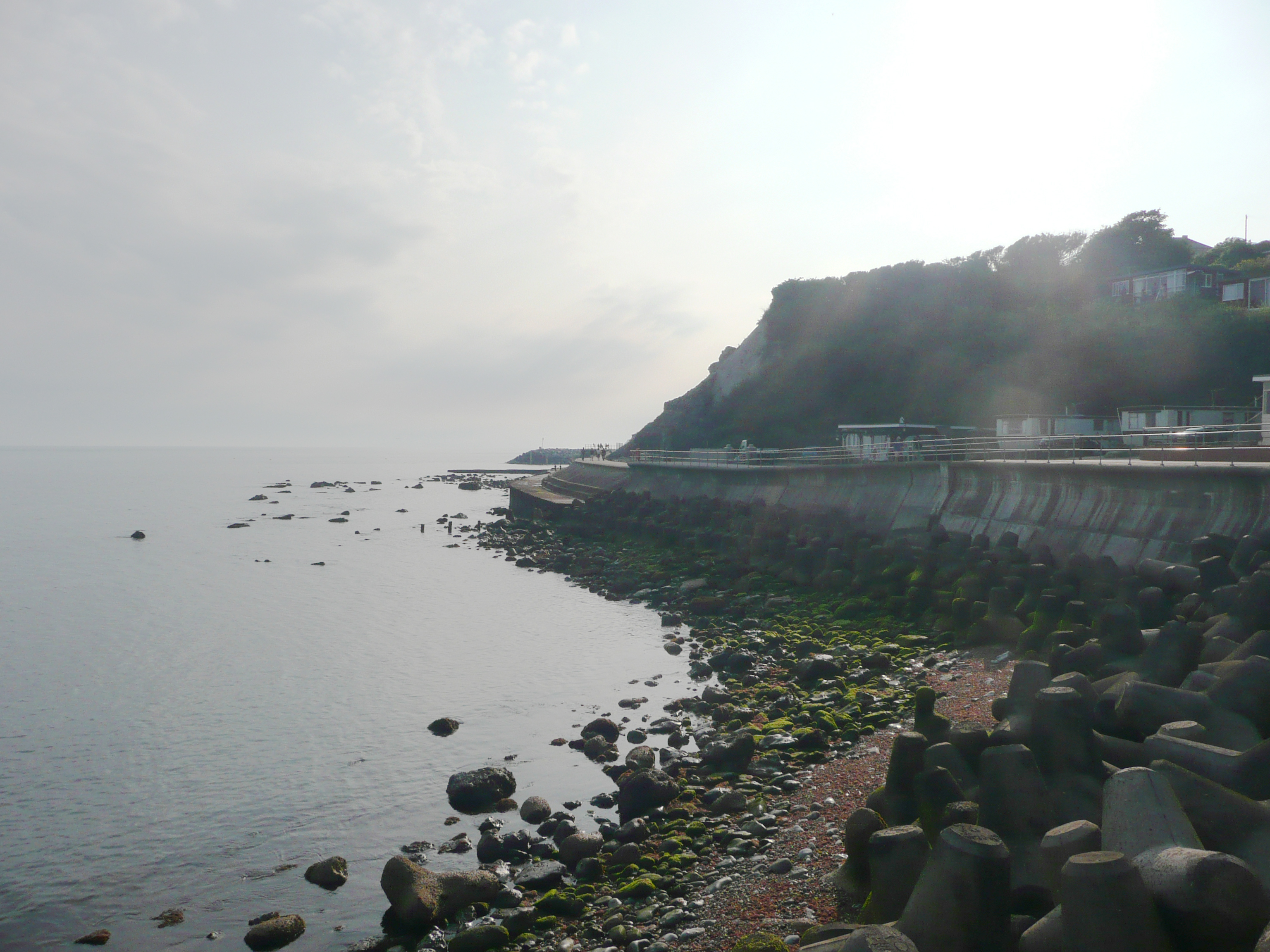 A photo of the coastline (sea, sea wall, tetrapods) just to the east of the main esplanade at Ventnor on the Isle of Wight. Panasonic DMC-TZ3; touched up for exposure by creator.